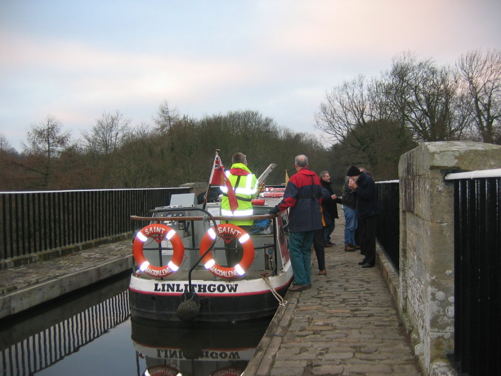 Tripboat on the Avon Aqueduct, Union Canal, Falkirk, Scotland